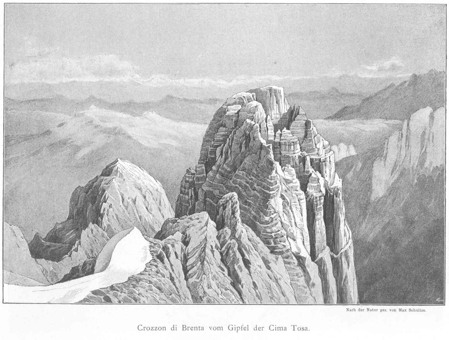 Crozzon di Brenta from south, 1890